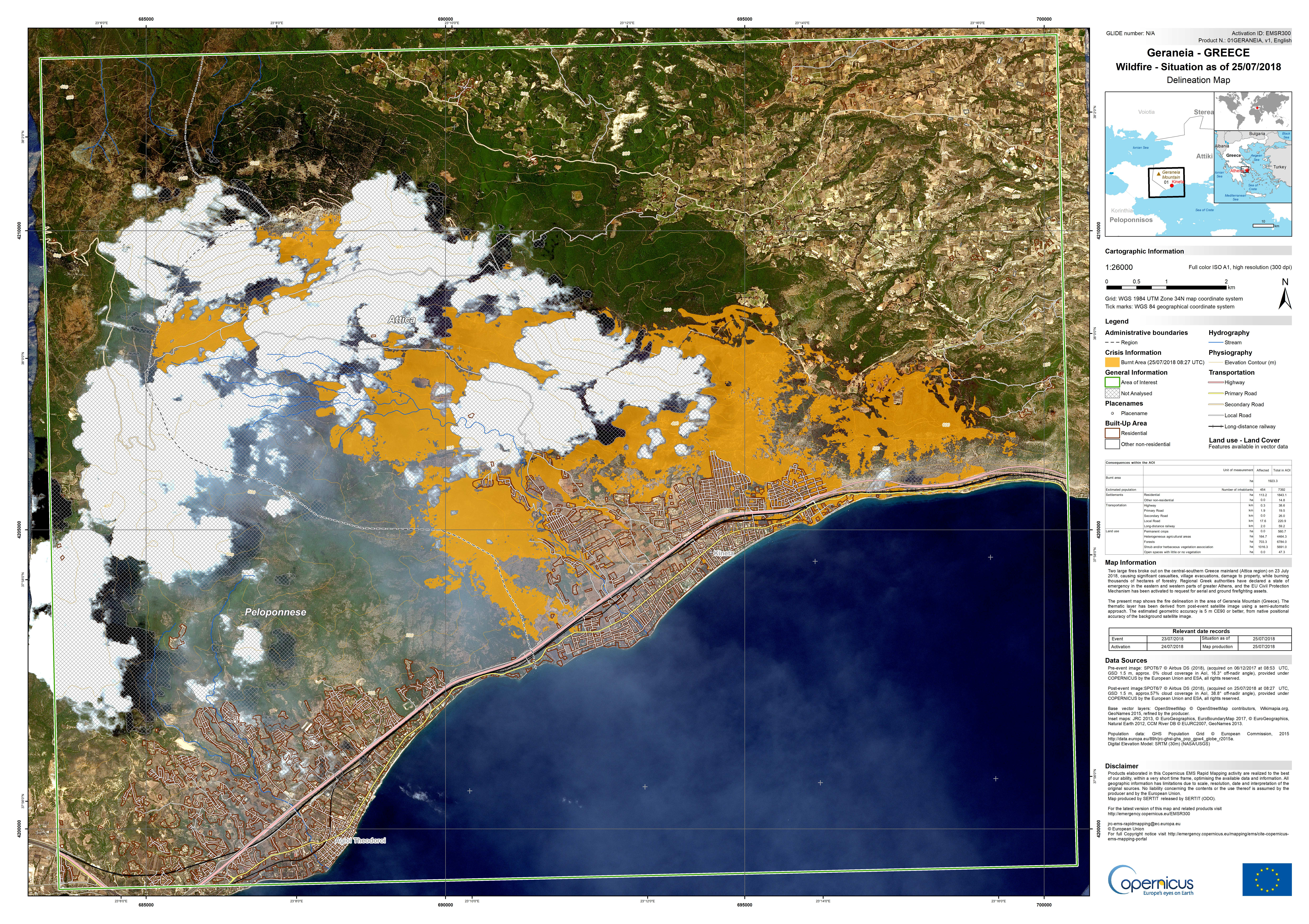 Expansion of a fire in Geraneia mountains and Kineta that began on July 23, 2018. Satellite image from the Sentinel-2 satellite processed by the Copernicus Emergency Management Service